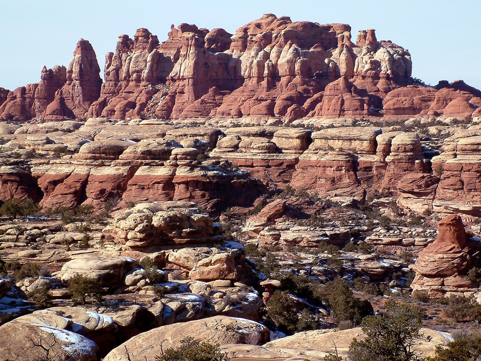 Canyonlands National Park is located in the American state of Utah, near the city of Moab. Taken by Jesse Varner, Jan. 4, 2003